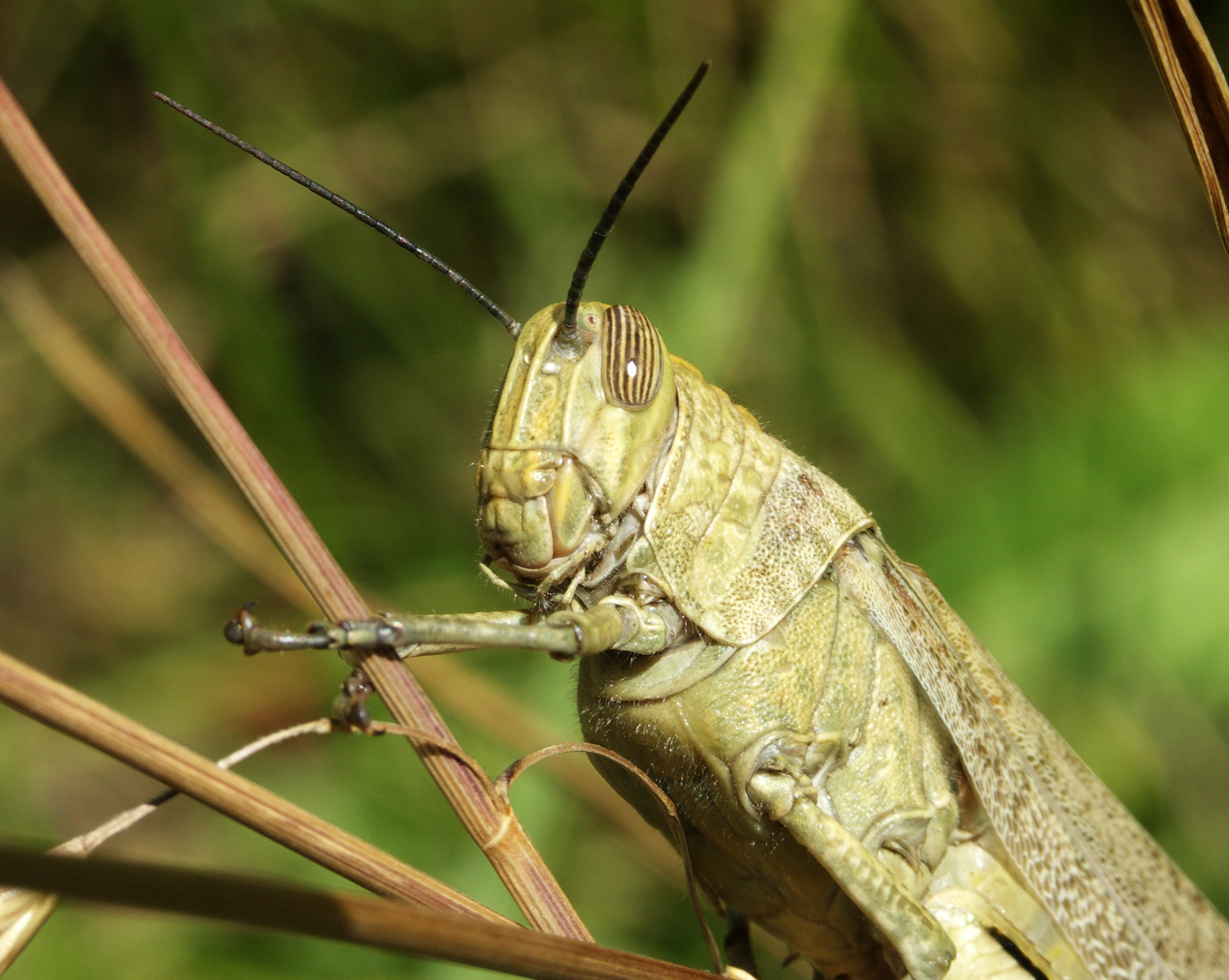 Portrait of a grassopper of the Acrididae family: Anacridium aegyptium